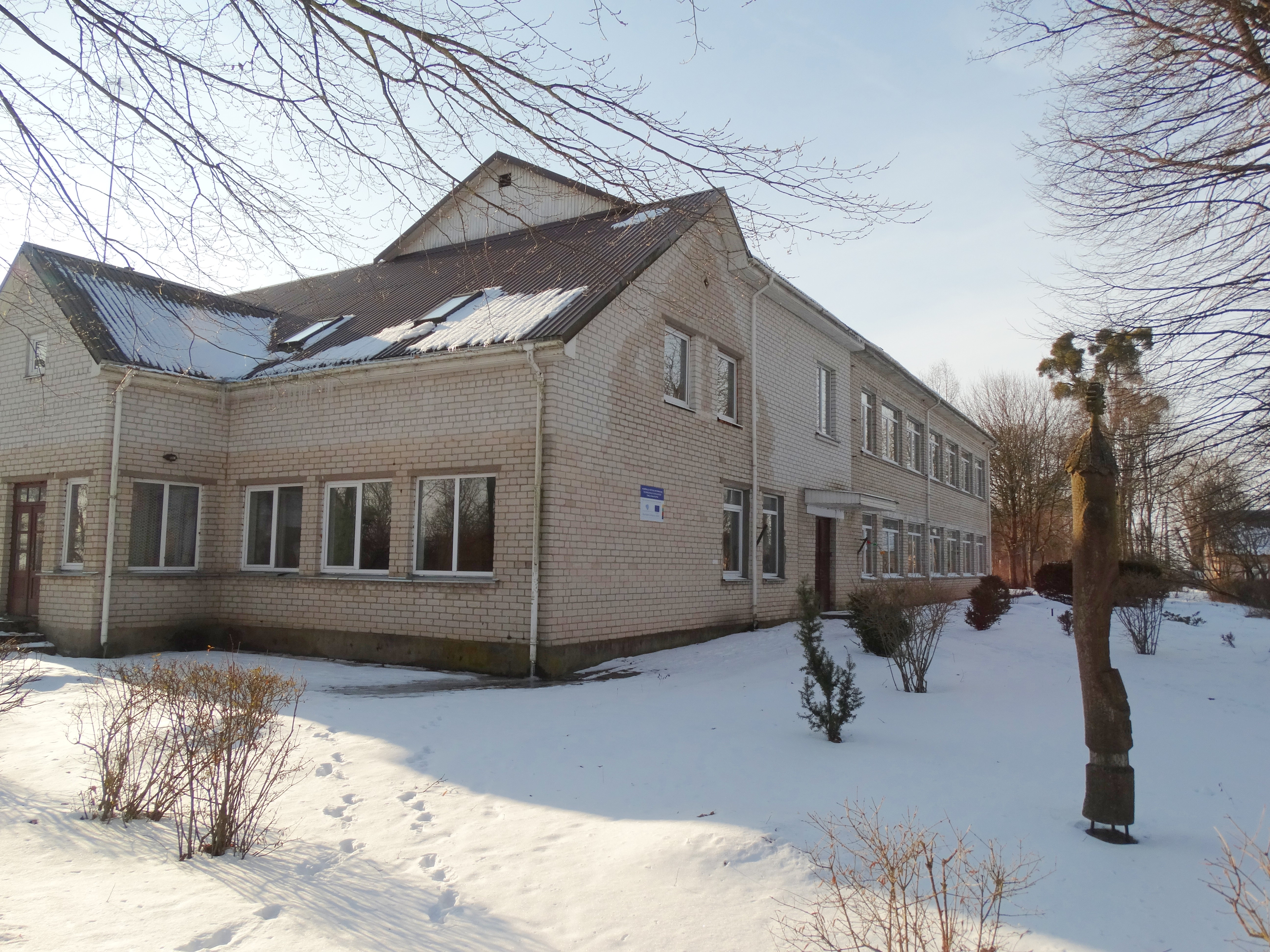 School, Klebiškis, Prienai district, Lithuania